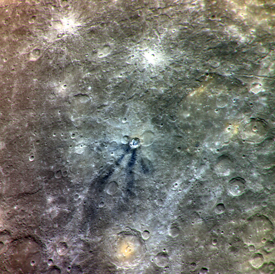 Oblique view of Matabei crater (center) and its ray system on Mercury. Approximate color representation combining three images acquired by MESSENGER Wide Angle Camera (EW1065214692F, EW1065214696G, EW1065214700I) with I (996.2 nm), G (748.7 nm), and F (433.2 nm) filters. Combined in GIMP software as RGB (Red-Green-Blue). Approximate north is up. Statistics for I image: Emission Angle: 33.0 Incidence Angle: 40.7 Latitude: -39.5 Longitude: 346.2 Phase Angle: 54.9